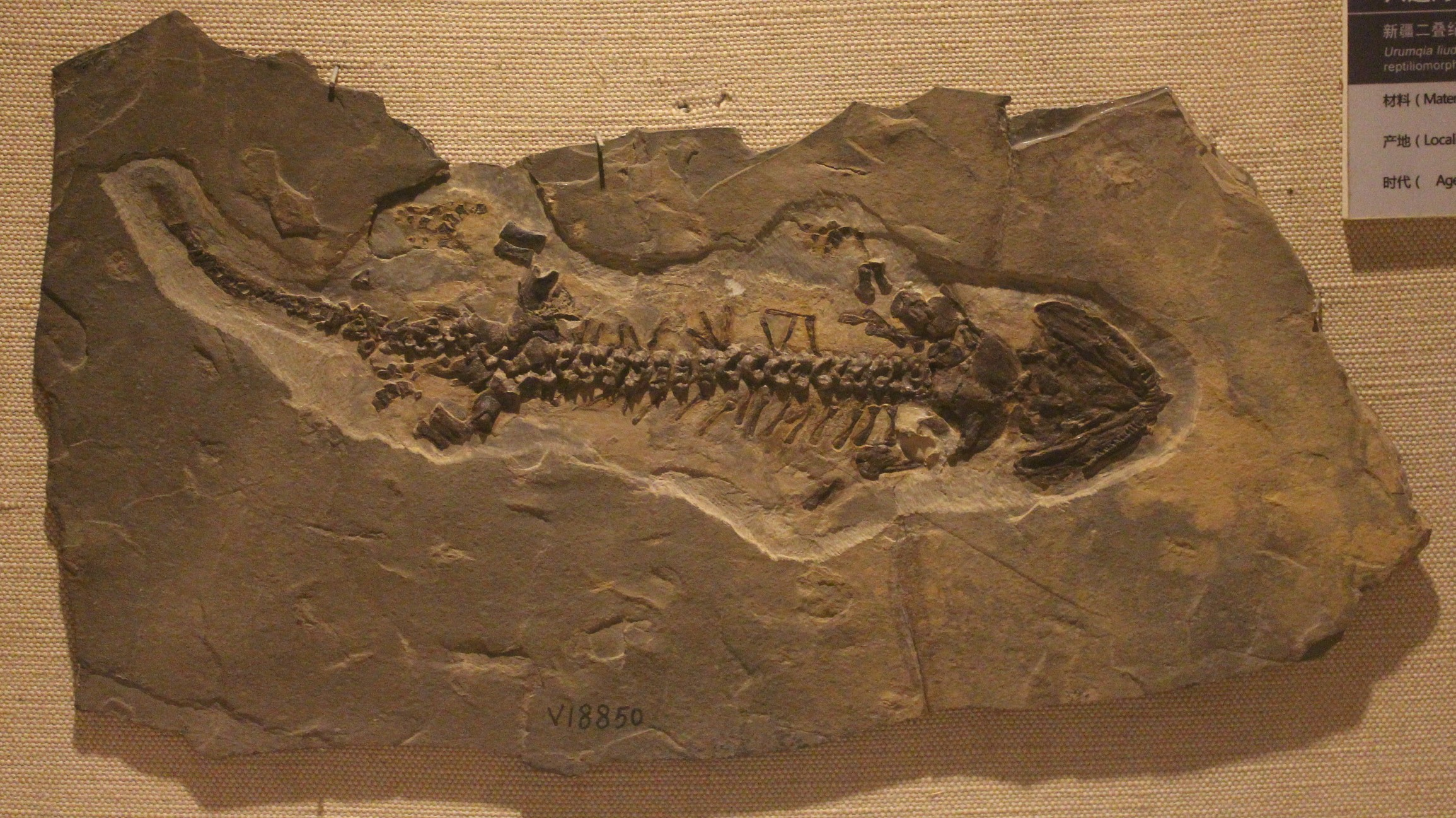 Utegenia skeleton on display at the Paleozoological Museum of China.